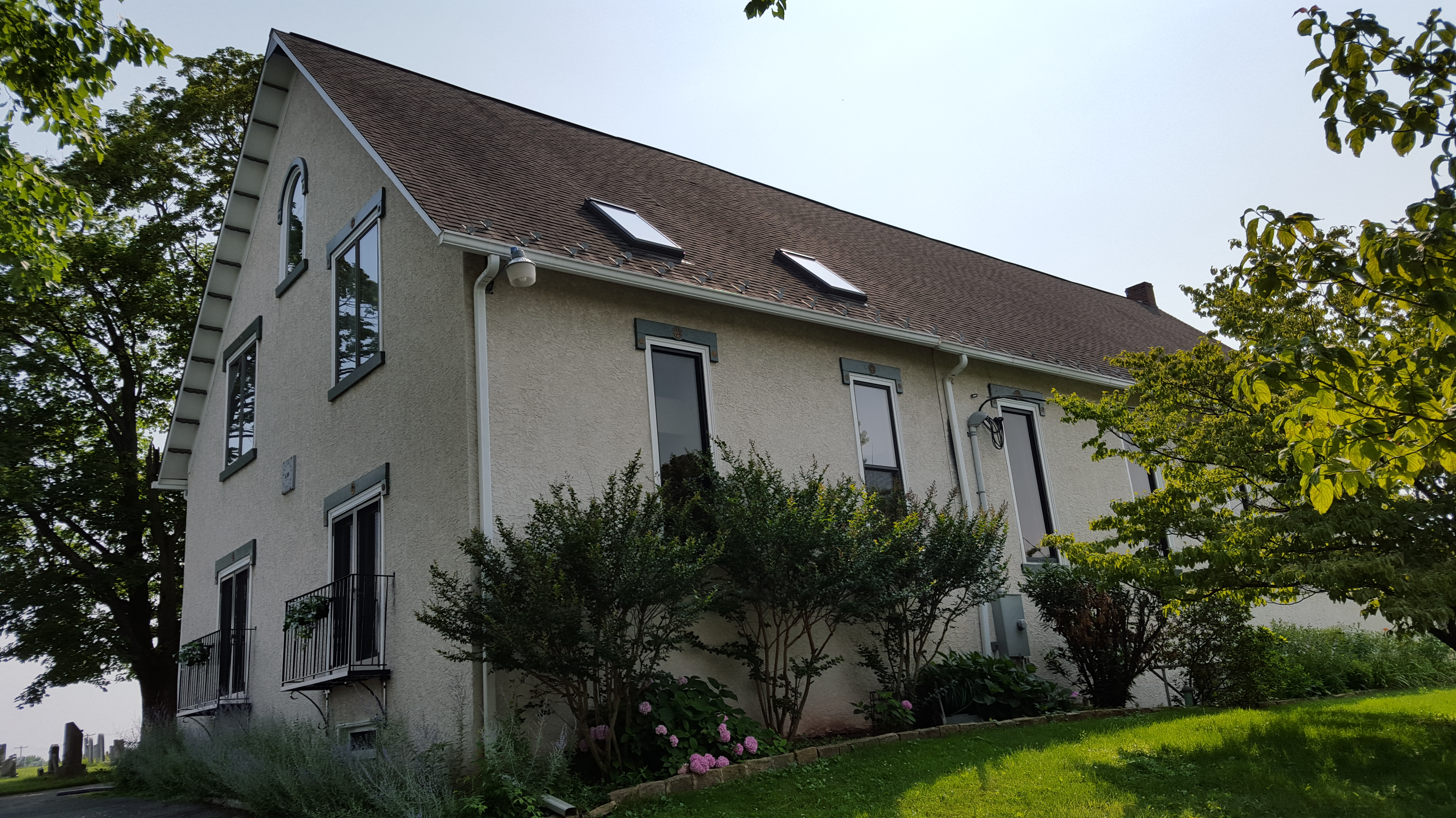 The Meetinghouse